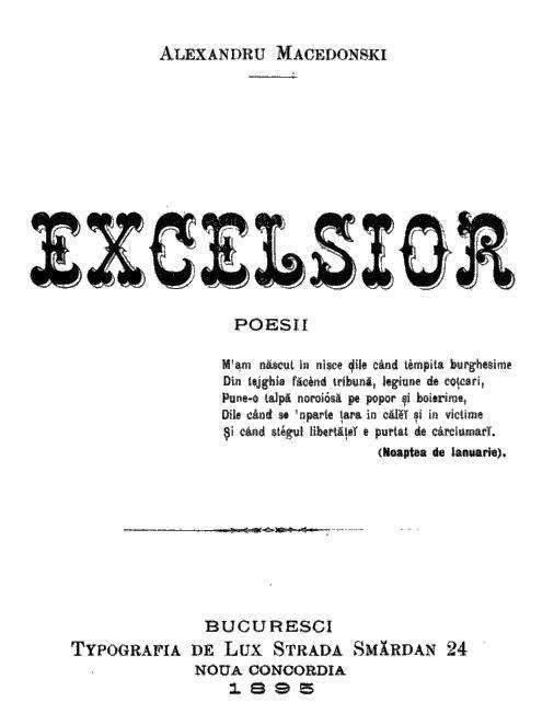 Alexandru Macedonski - First page of Excelsior, published by Tipografia de Lux Strada Smârdan 24, Noua Concordia in 1895.